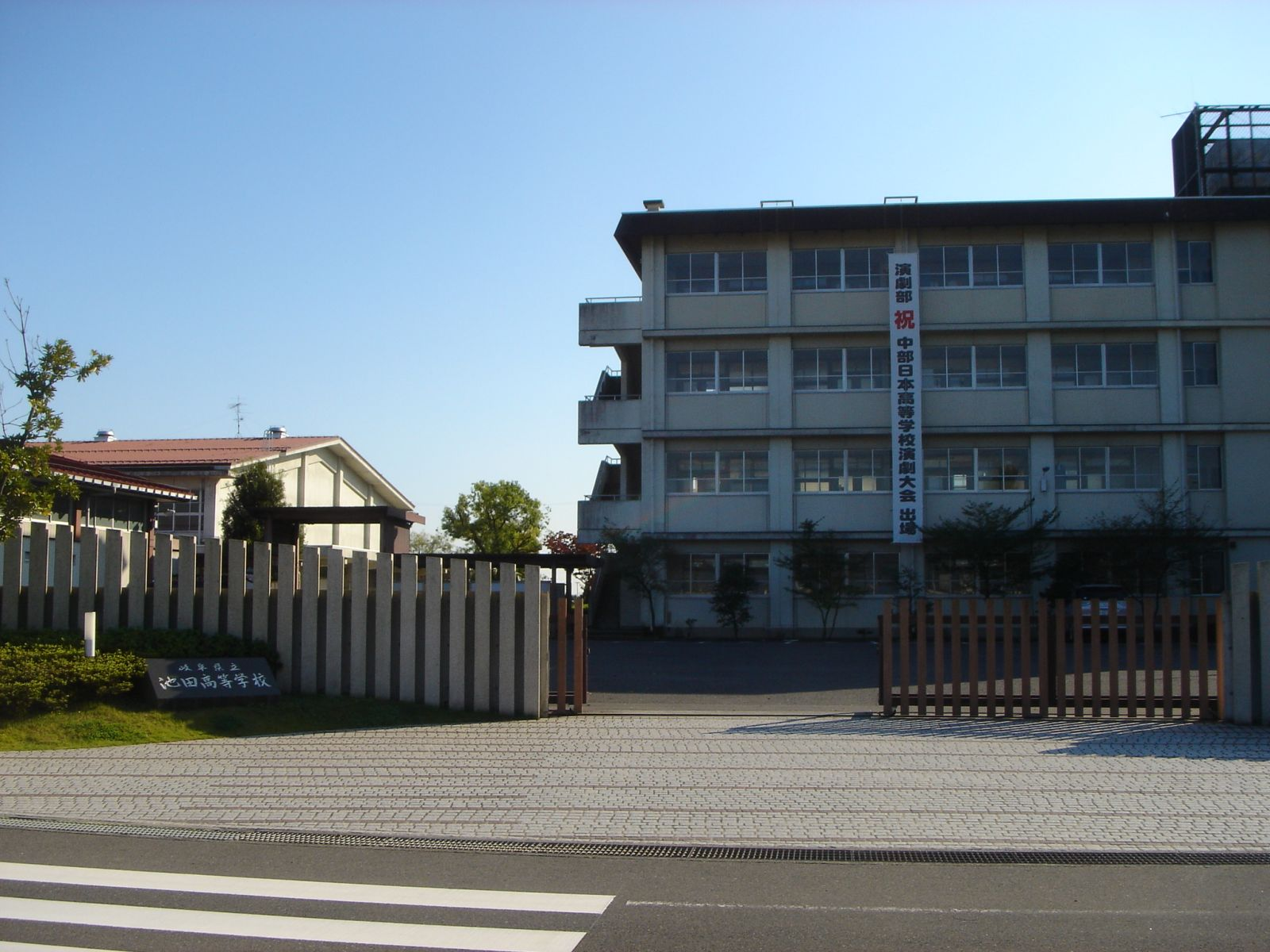 Gifu prefectural Ikeda high school（岐阜県立池田高等学校）,Ikeda,Gifu,Japan(岐阜県池田町)で撮影。